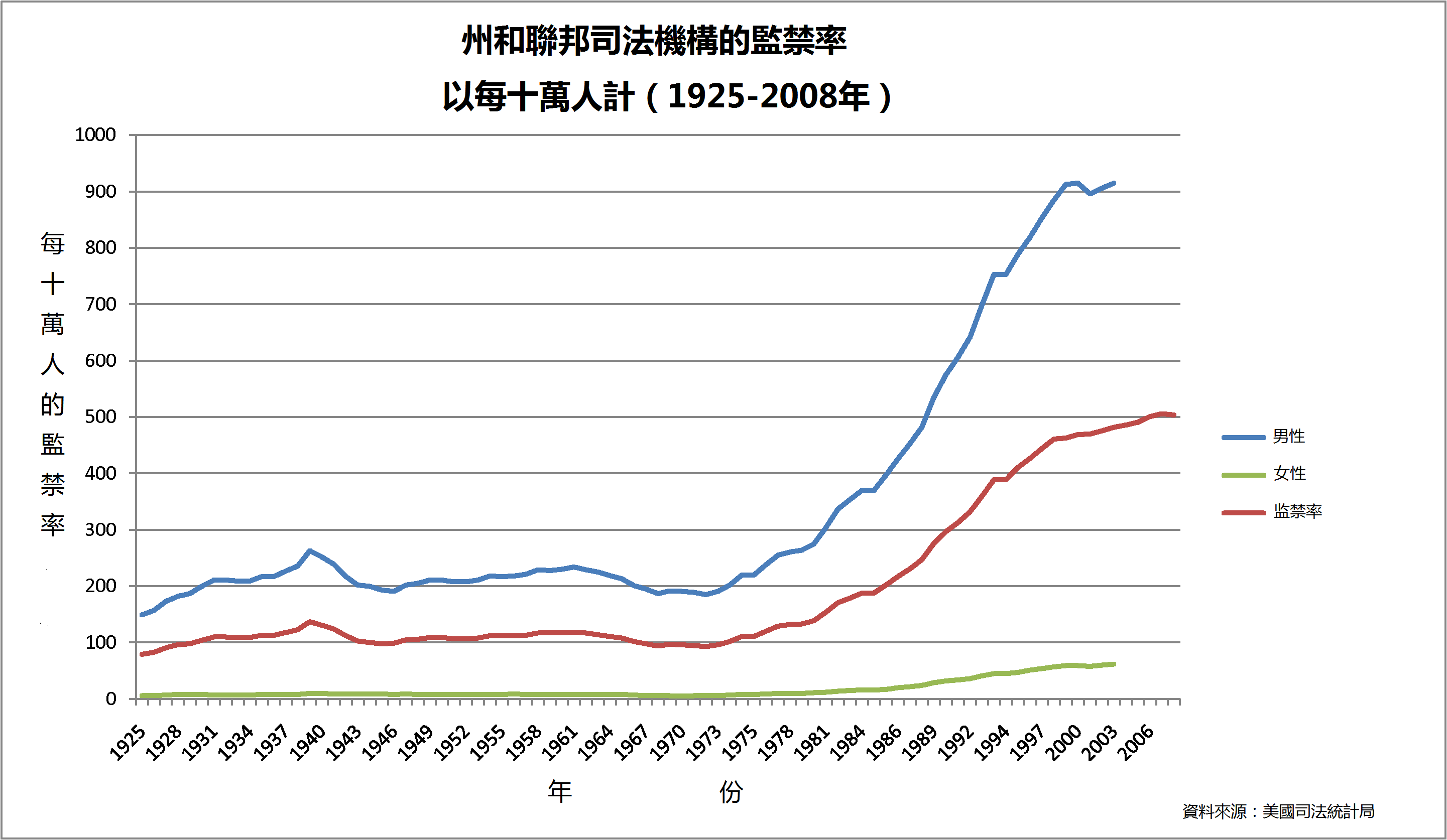 A graph made in excel 2007 showing the incarceration rate per 100,000 population in the United States. It shows the female and male rate, as well as their average. The graph depicts under the rate (per 100,000 resident population in each group) of sentenced prisoners under jurisdiction of State and Federal correctional authorities from 1925 through 2008. It does not include jail inmates. Traditional Chinese edition